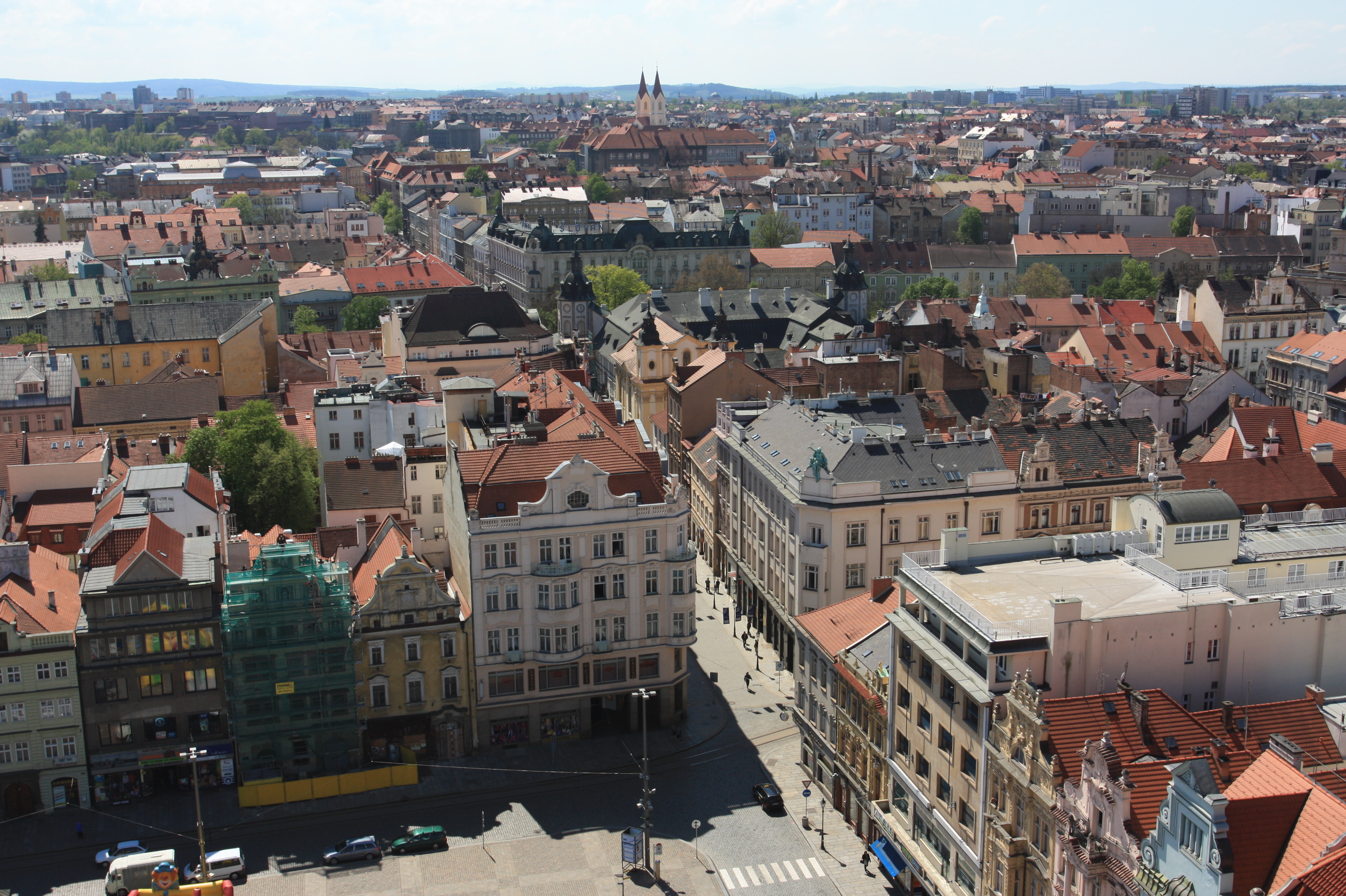 Plzen (Pilsen) city view.